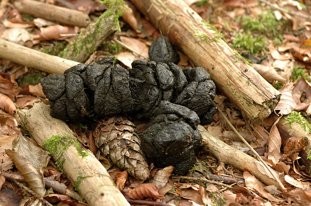 Cervus elaphus droppings from Commanster, Belgian High Ardennes (50°15'20N,5°59'58E)